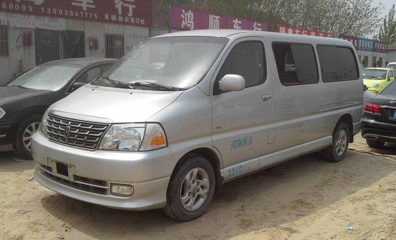 Jinbei Granse LWB facelift photographed in Zhengzhou, Henan province, China.